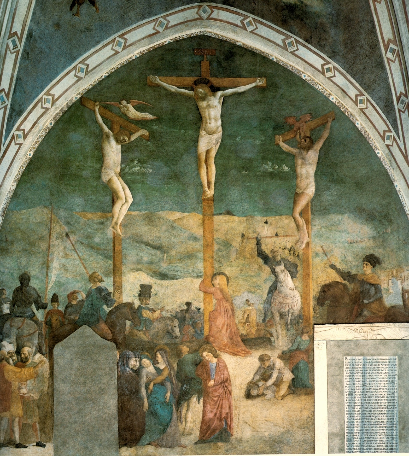 Masolino and Masaccio. Crucifixion, fresco 1428-30. San Clemente, Rome